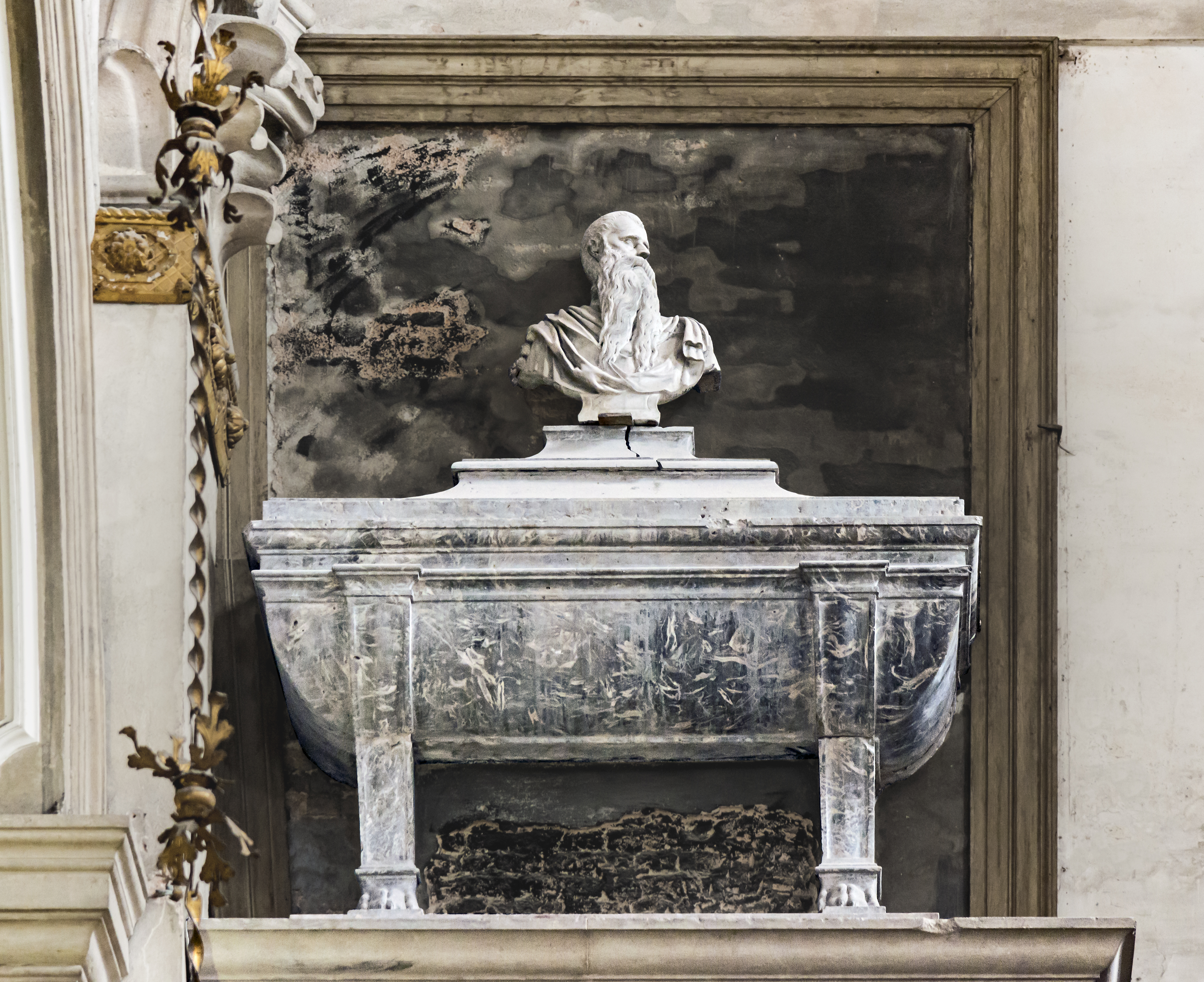 I Gesuiti, Venice Counter-façade - Monument to Giovanni Da Lezze by Jacopo Sansovino, bust of Giulio Del Moro.